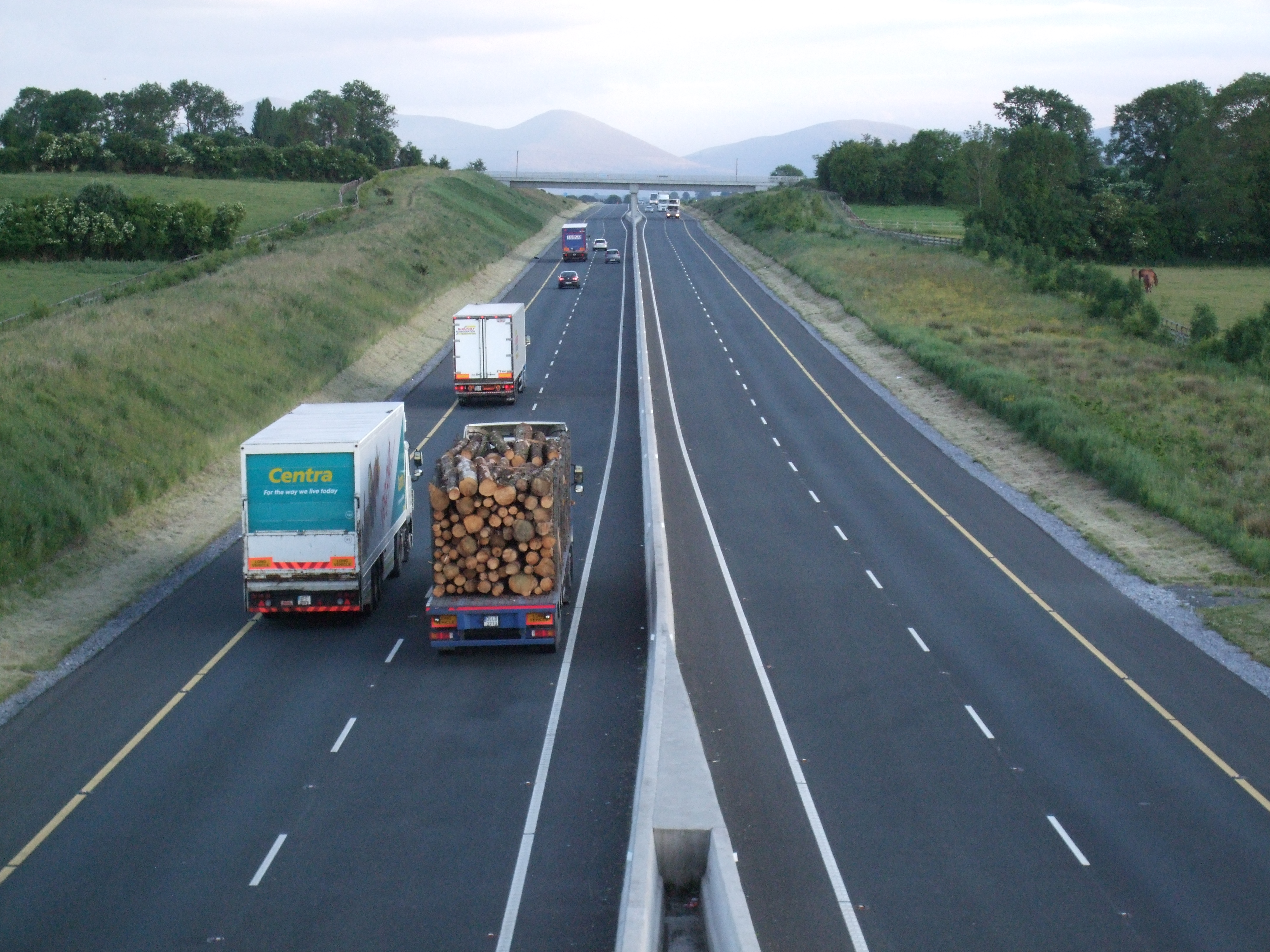 The M8 in June 2010 between Cashel and Cahir